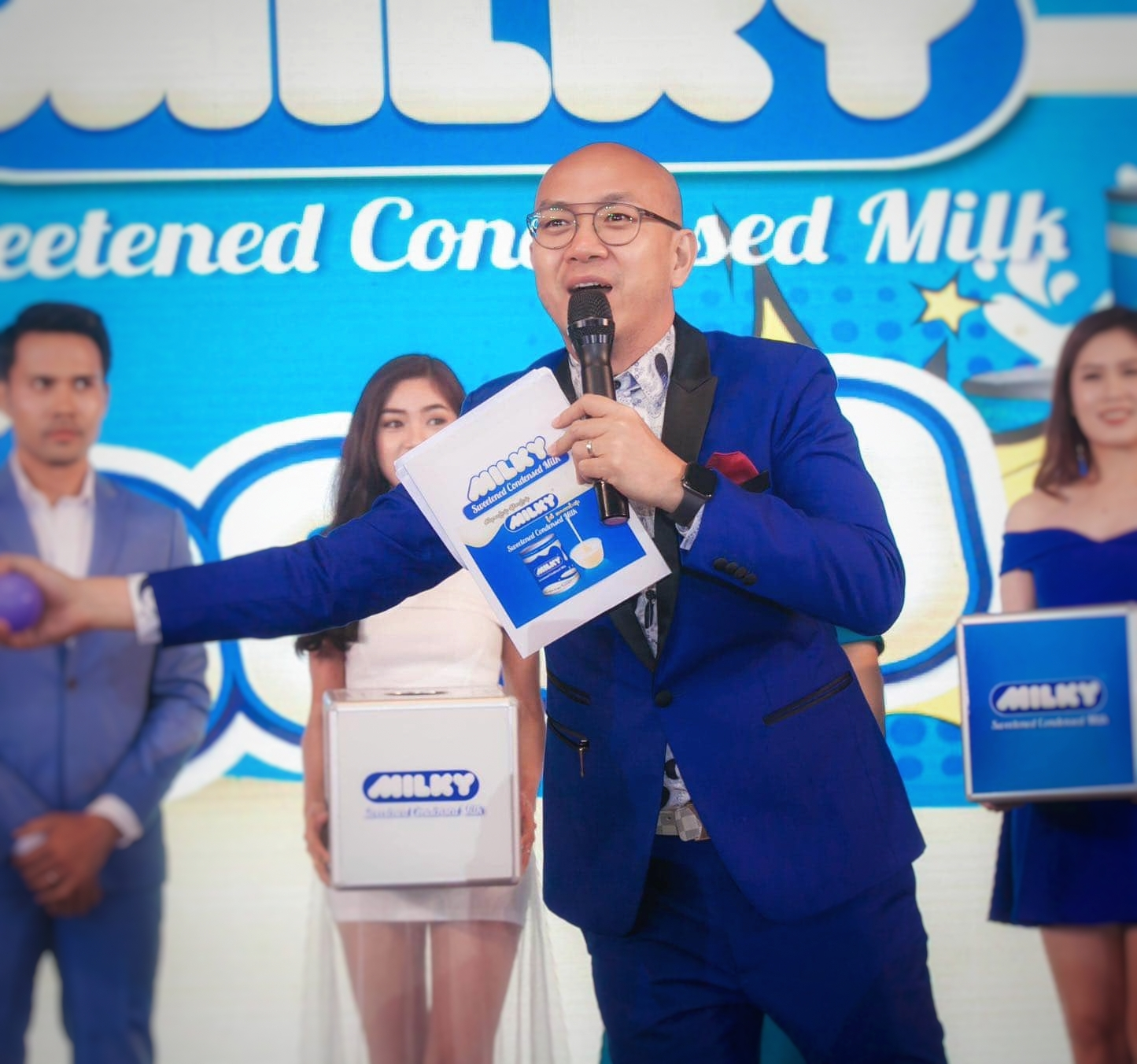 Mg Mg Aye is famous host in Myanmar.